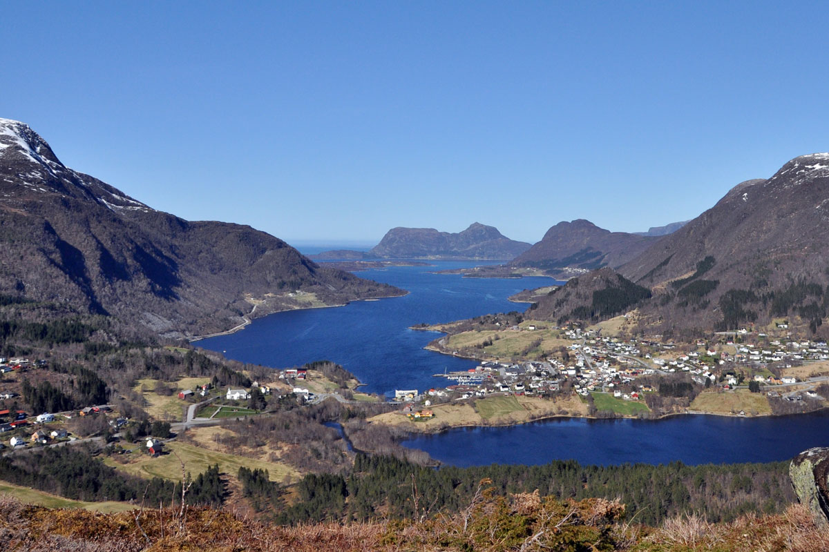 Vatnefjorden seen from south with Vatne centre in the foreground.